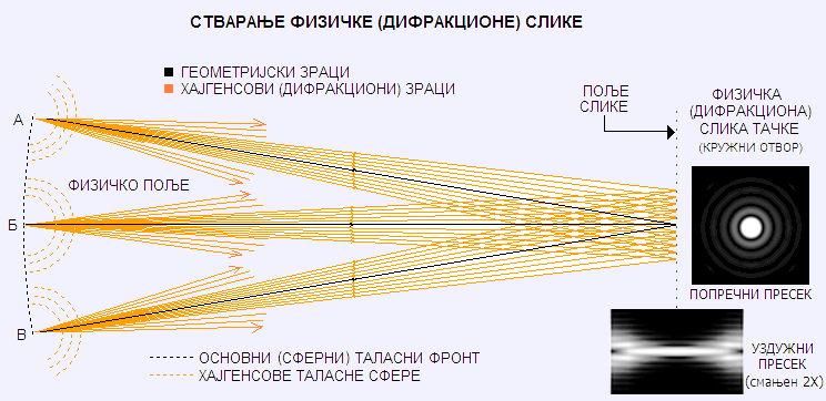 СТВАРАЊE ФИЗИЧКЕ (ДИФРАКЦИОНЕ) СЛИКЕ